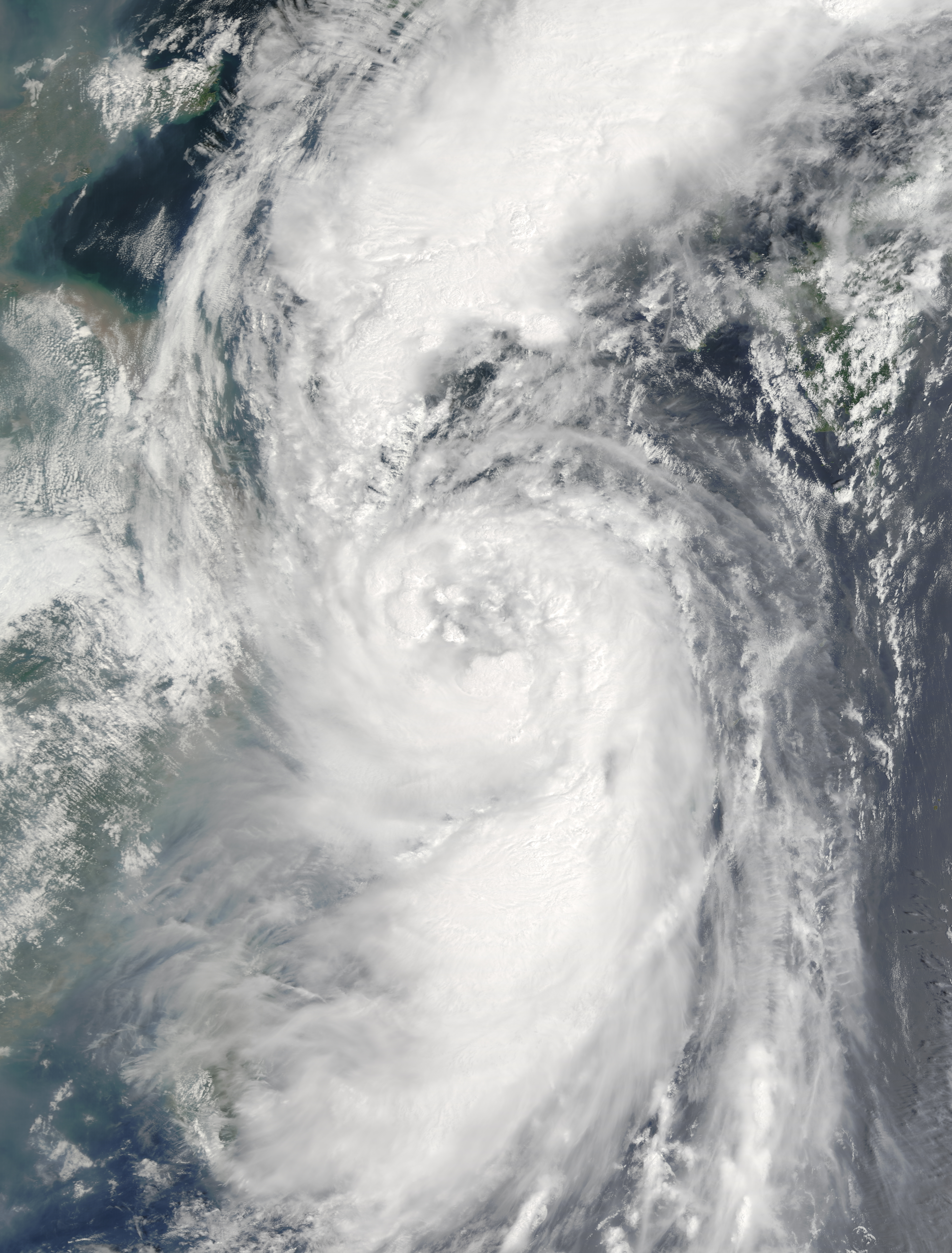 Typhoon Megi on August 18, 2004.